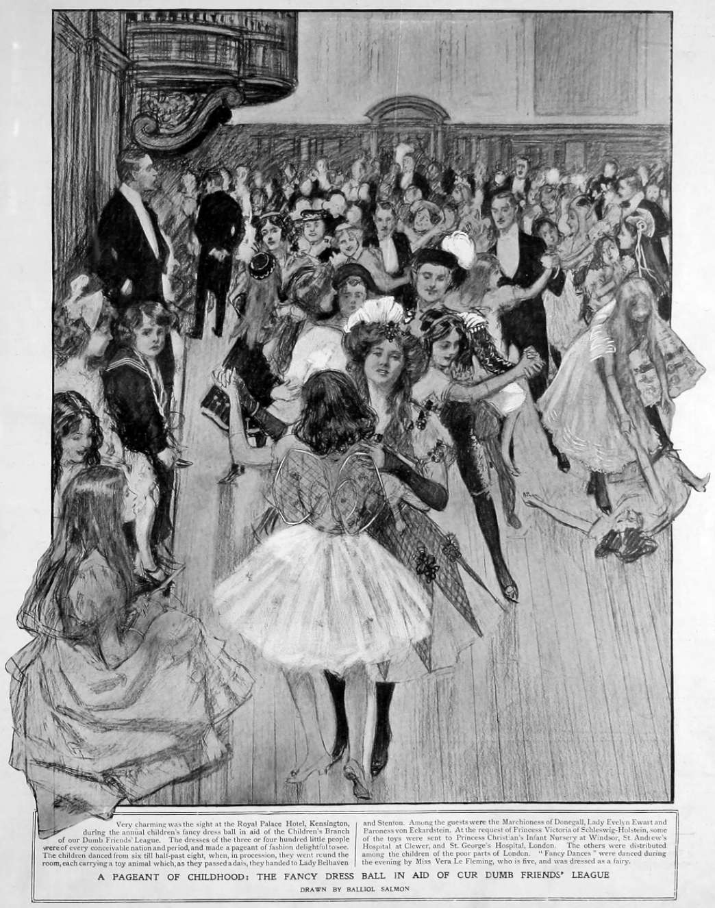 Front Covers for the Graphic of 1907 by Salmon Balliol (1858-1963)